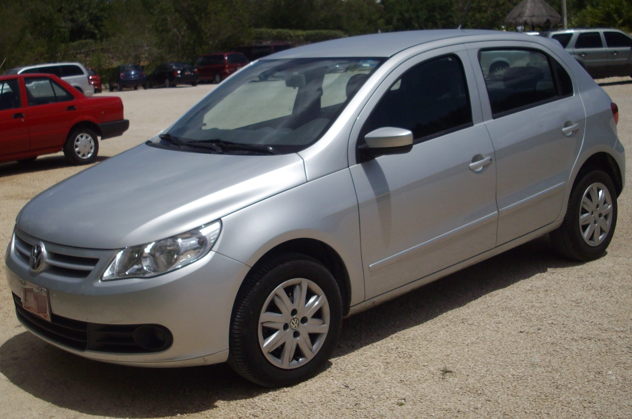 Volkswagen Gol photographed in Quintana Roo, Mexico.